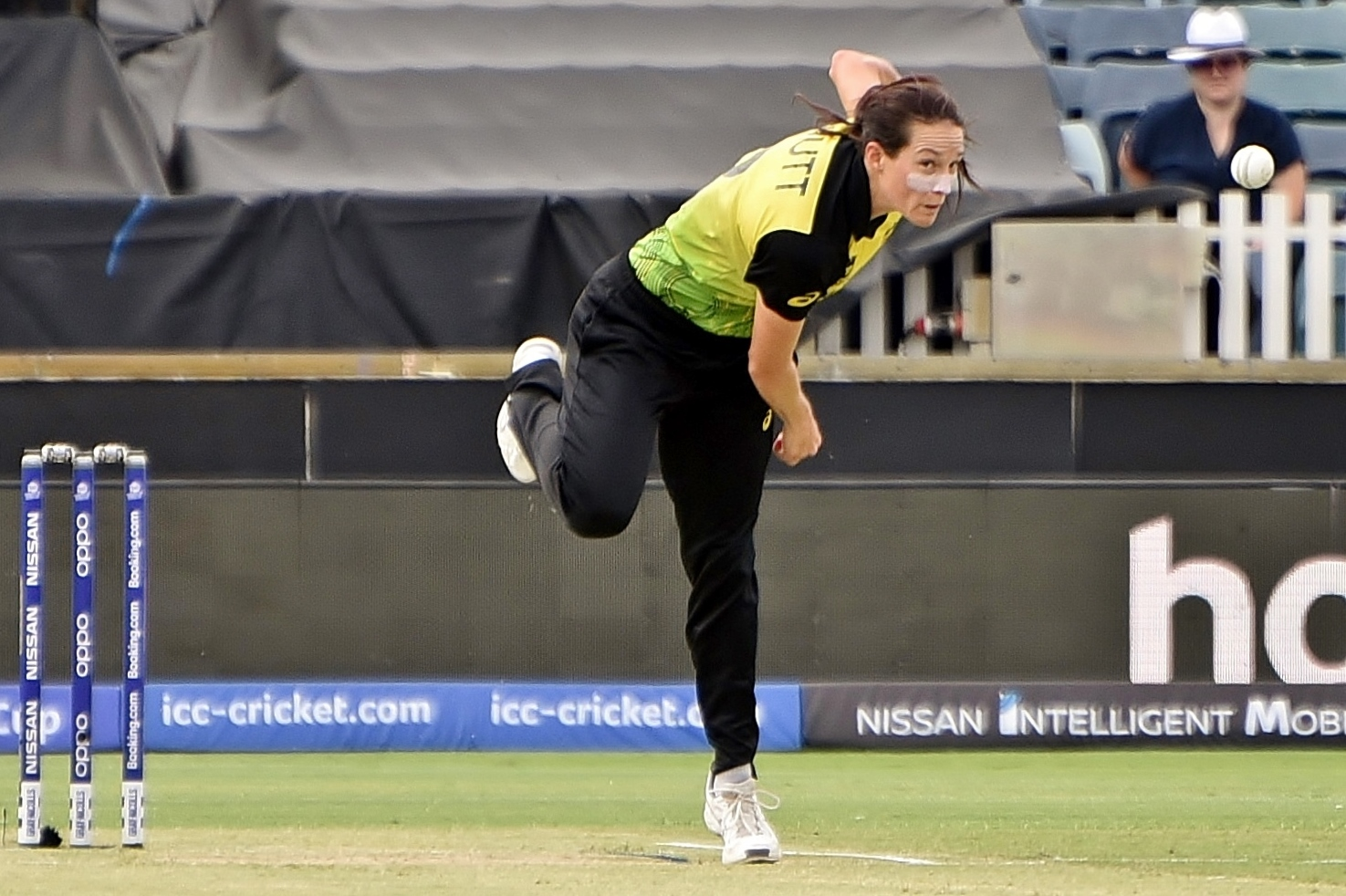 Megan Schutt bowling for Australia against Sri Lanka during their 2020 ICC Women's T20 World Cup match at the WACA Ground in Perth, Australia